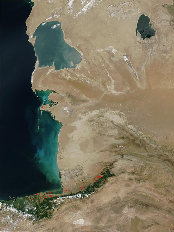 Description: A surprising stretch of green vegetation in otherwise pale, arid terrain, the Elburz Mountains (bottom center) in northern Iran capture the majority of the moisture coming from the Caspian Sea (image left). Several scattered fires (red dots) have been detected by the Moderate Resolution Imaging Spectroradiometer (MODIS) in this image from June 24, 2002. Along the shores of Turkmenistan, the Caspian Sea is swirling with blues and greens, which may be a mixture of sediment and microscopic marine plants called phytoplankton. In interior Turkmenistan, (left center) the vast Karakum Desert covers almost 80 percent of the country.